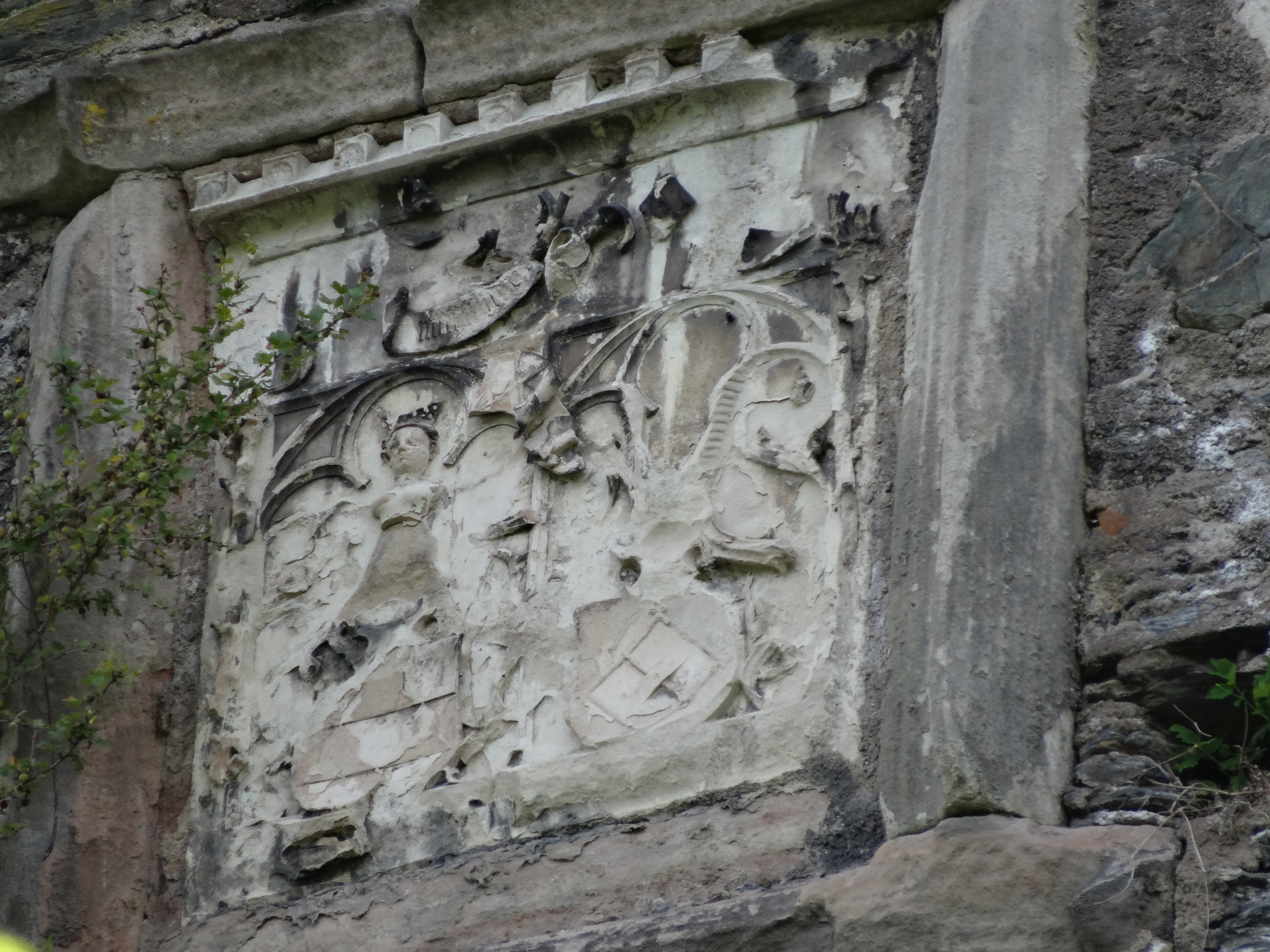 Castle Wespenstein in Gräfenthal, Thuringia, Germany